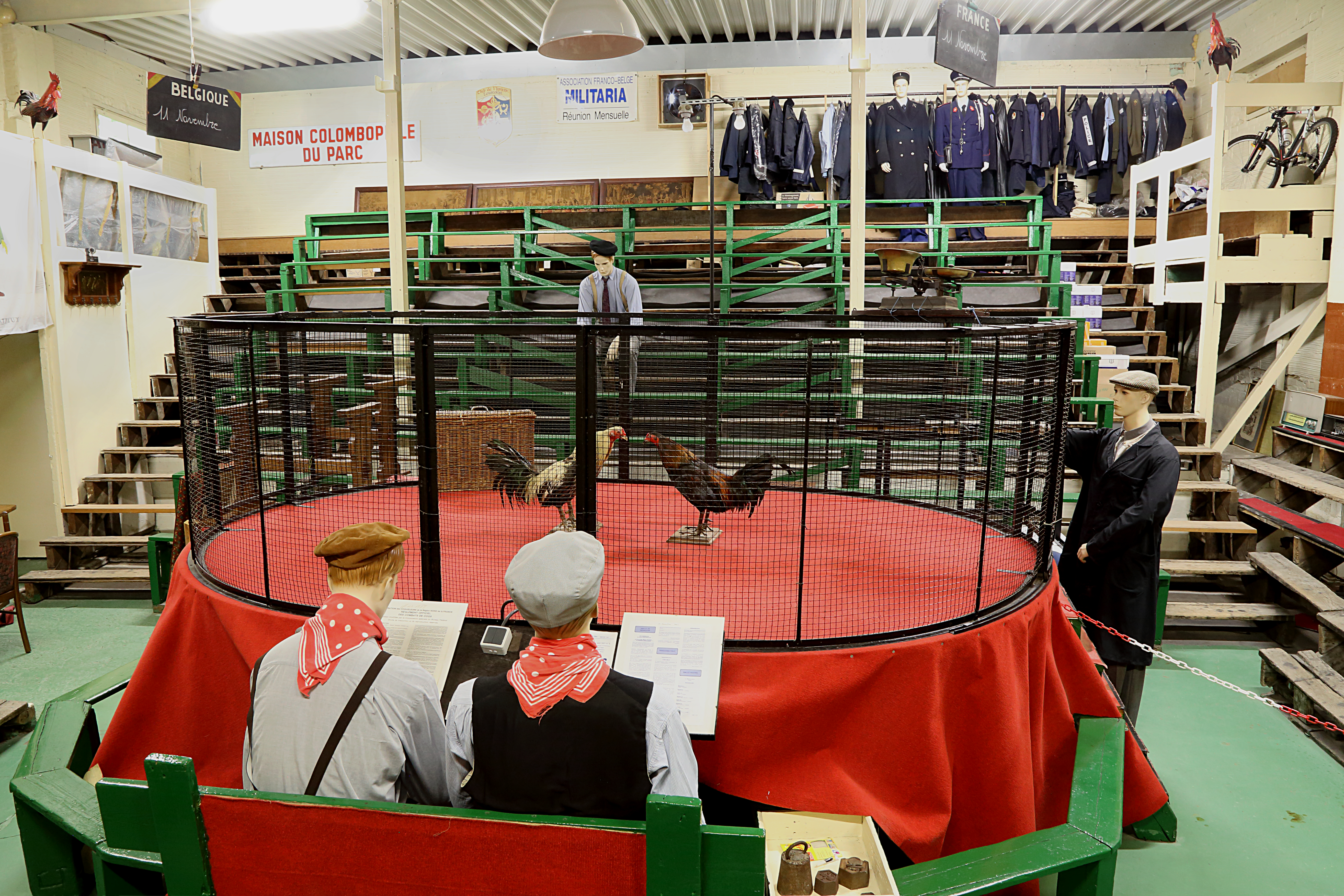 Cockfighting pit (in service until 2001) today museum, in Neuville-en-Ferrain, France.